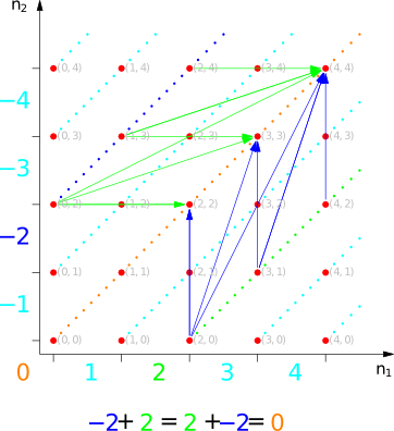 Several variations on 2+-2 = -2+2 = 0 with integers constructed as pair of natural numbers